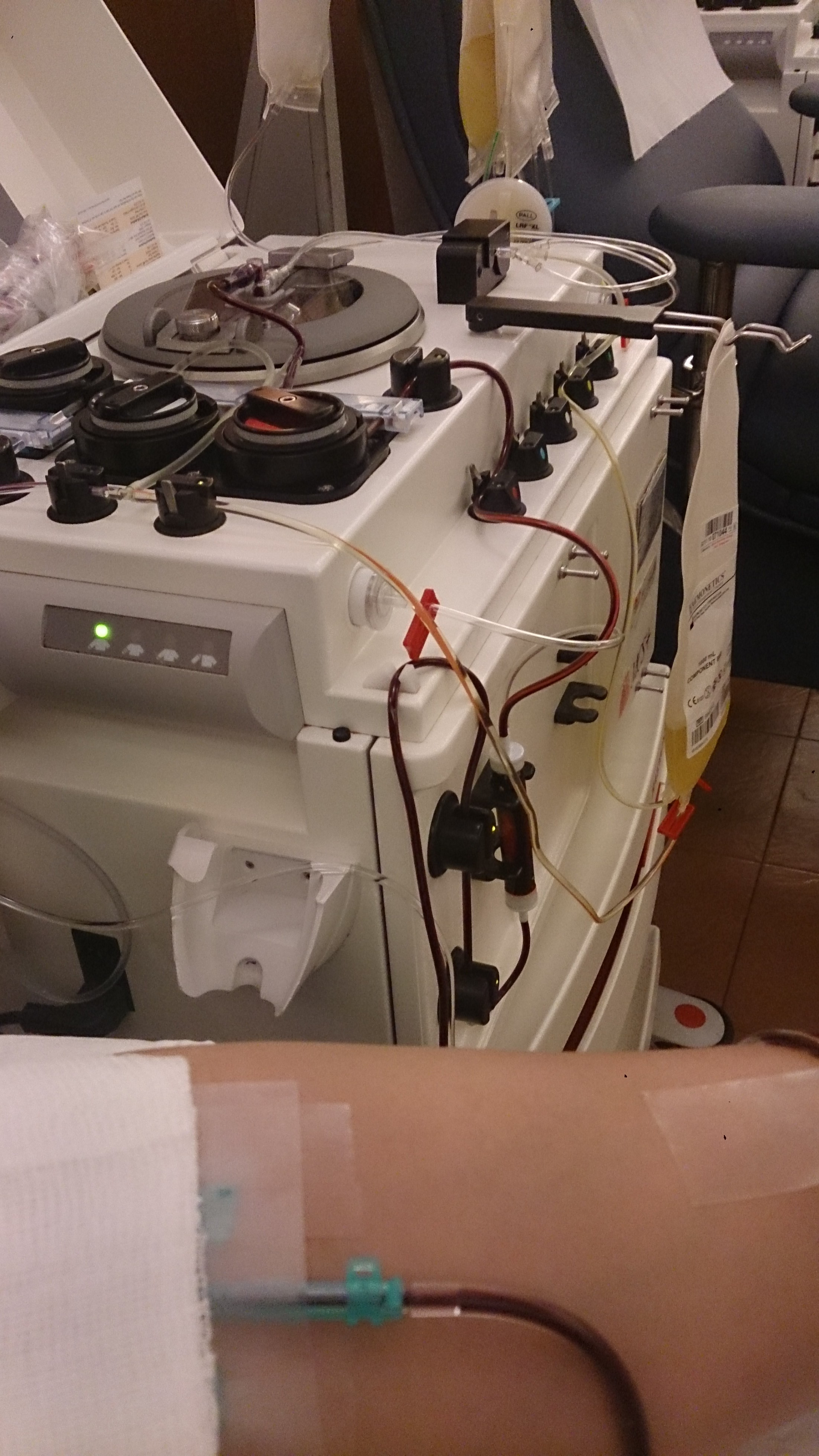 This photo shows a blood donor hooked up to a plateletpheresis machine. The same machine can be used for plasmapheresis. The whole donation process may take between 45 minutes and 2 hours.